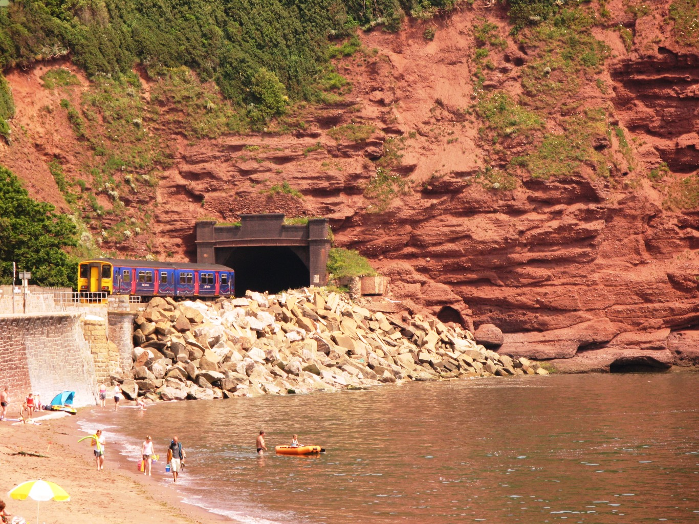 First Great Western Class 150 DMU 150244 approaching Parson's Tunnel, Teignmouth, Devon, England.